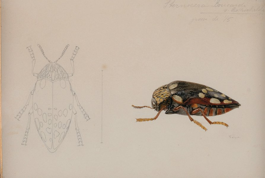 Sternocera boucardi v. rothschildi a synonym of Sternocera castanea rothschildi Pochon (1975) Julien VESQUE (1848-1895), Crayon et aquarelle gouachée. Titrée en haut à droite. Signée en bas à droite. 10,5 x 16 cm.